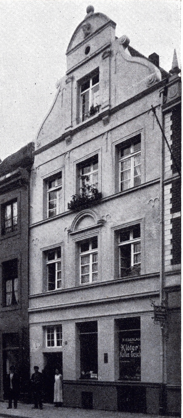 z